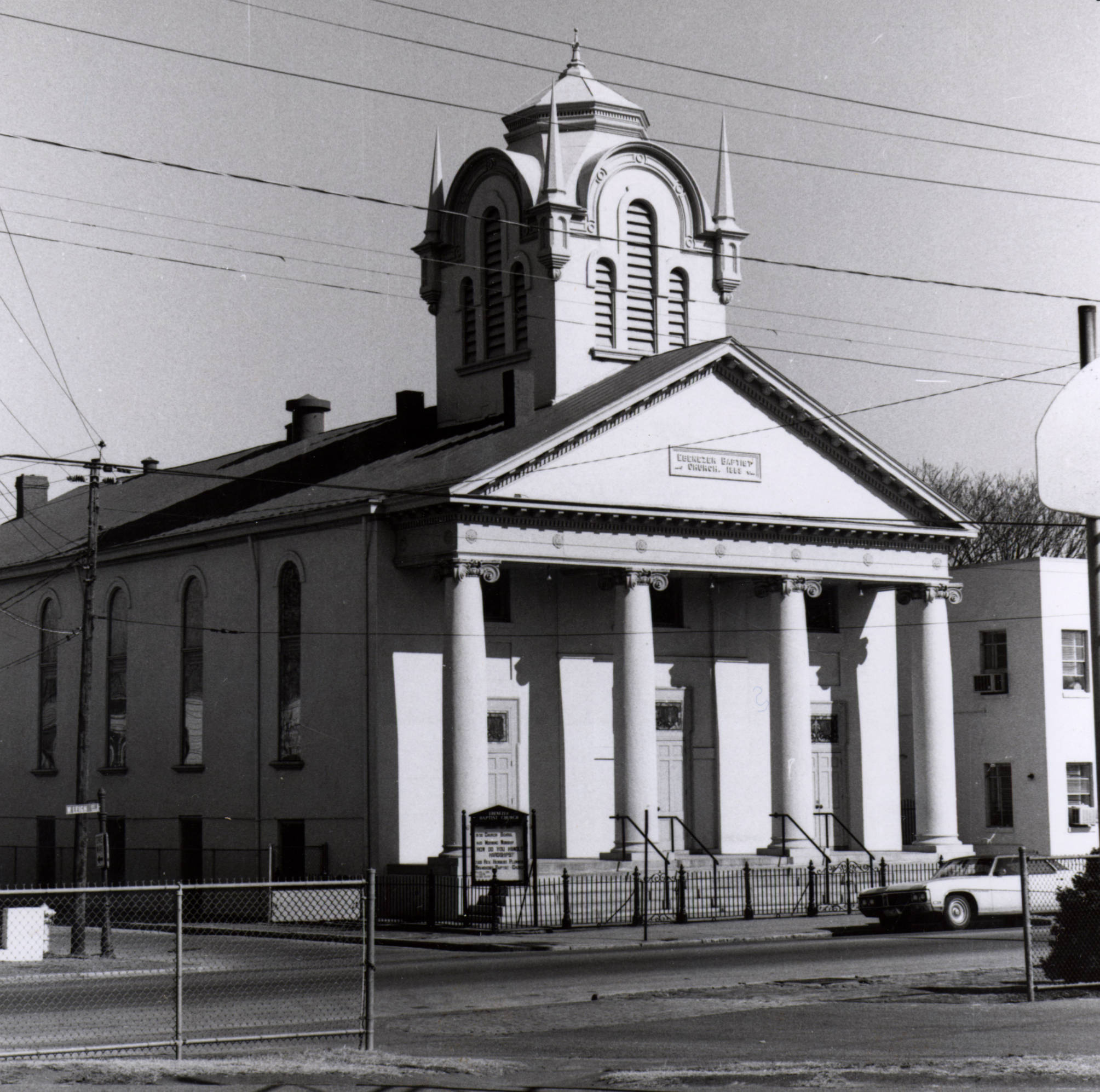 Address/Title: 216 West Leigh Street Other Title(s): Ebenezer Baptist Church Photographer: Zehmer, John G. (John Granderson), 1942- Original Description (from Book): Ebenezzer [i.e. Ebenezer] Baptist Church - One of the most prominent landmarks of the Jackson Ward, this building was built in the 1870's replacing the original church. The spire has been removed, but the building remains dignified and impressive. City/Location: Richmond (Va.) Date of photograph: ca. 1978 Map URL: Original Publication: Zehmer, John G., and Robert P. Winthrop. 1978. The Jackson Ward historic district. Richmond: Dept. of Planning and Community Development. Rights: This item is in the public domain. Acknowledgement of the Virginia Commonwealth University Libraries as a source is requested. Reference URL: Collection: VCU Jackson Ward Historic District